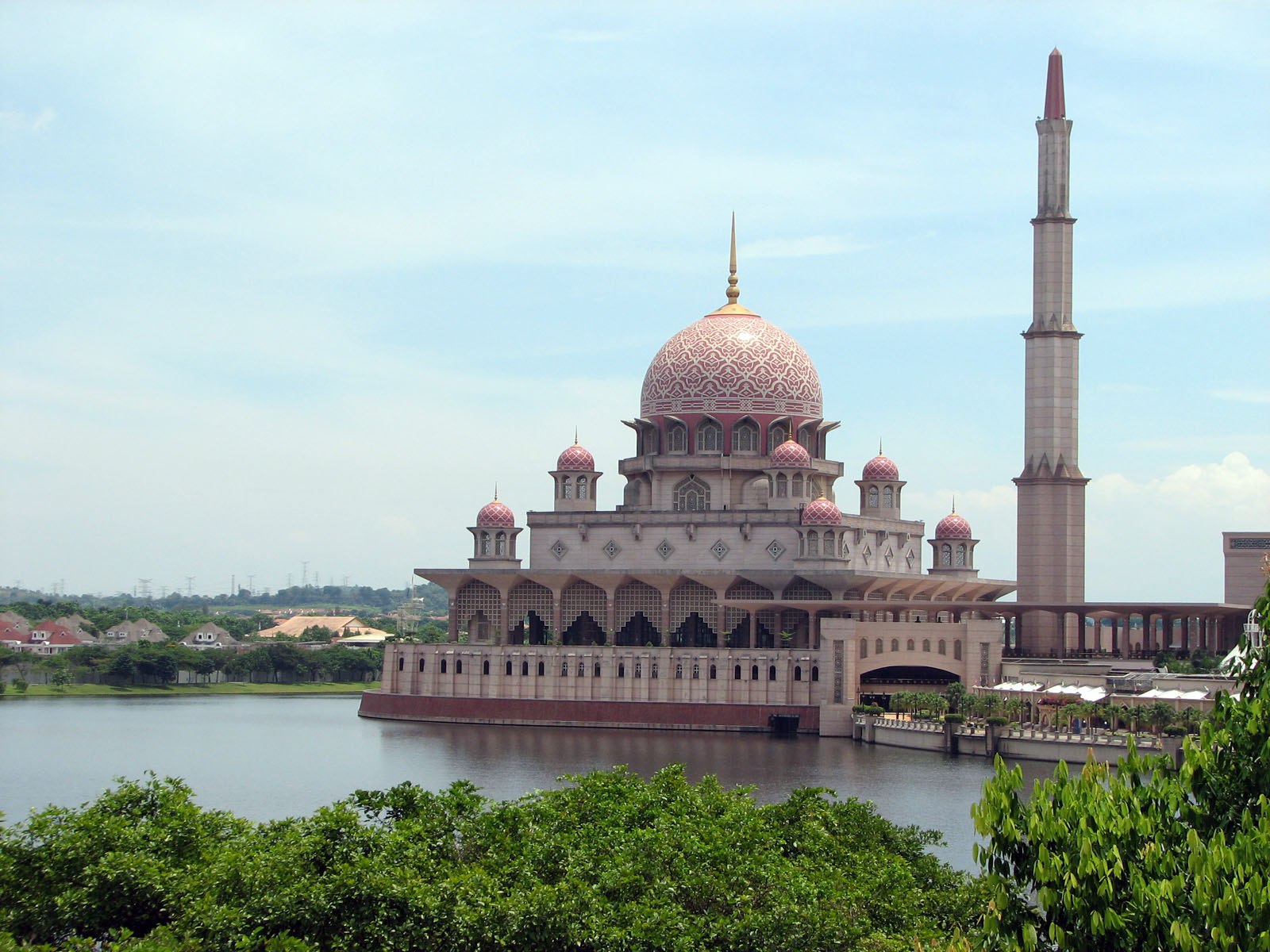 Putra Mosque in Putrajaya, Malaysia